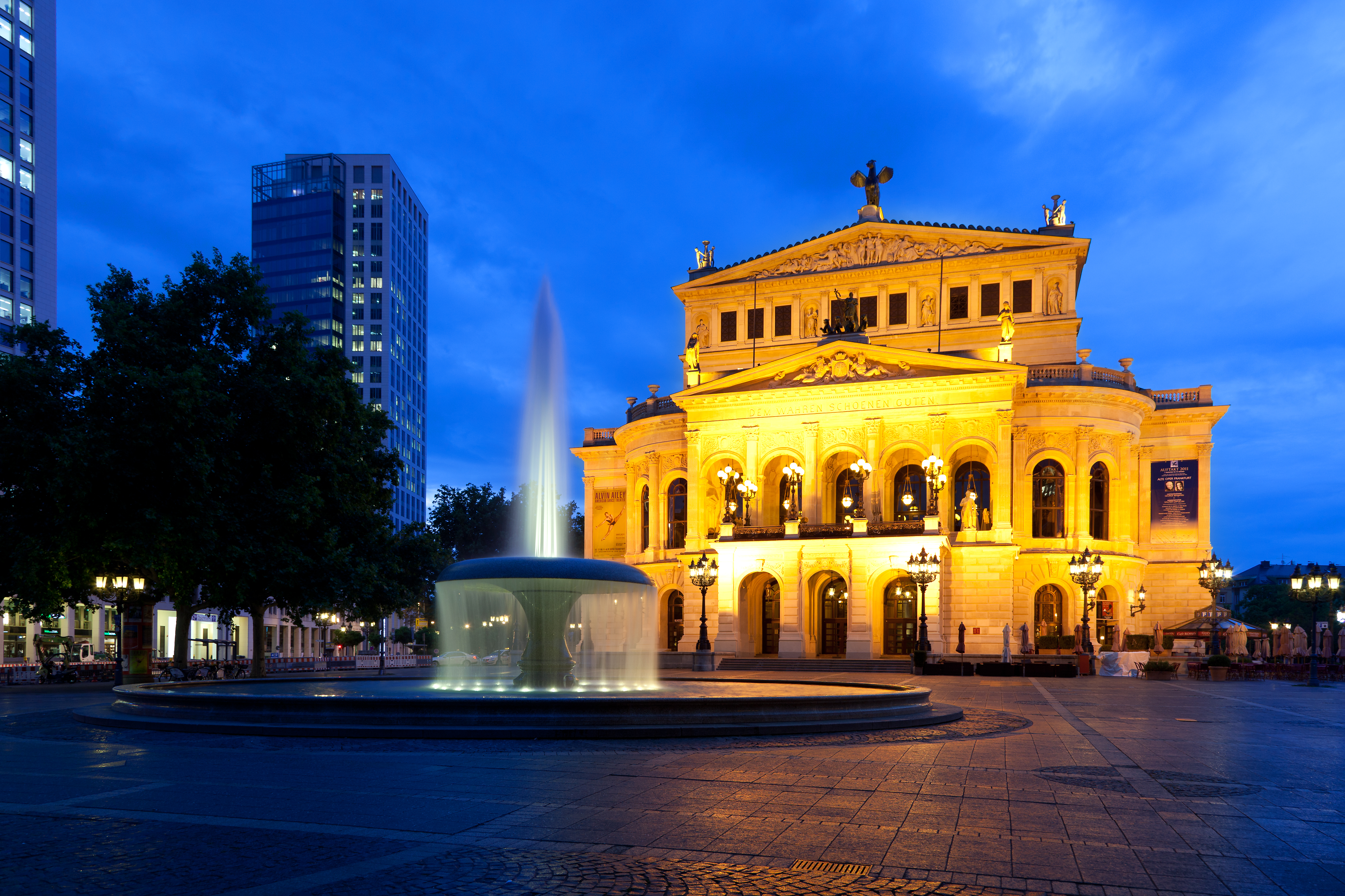 Old Opera in Frankfurt, Germany